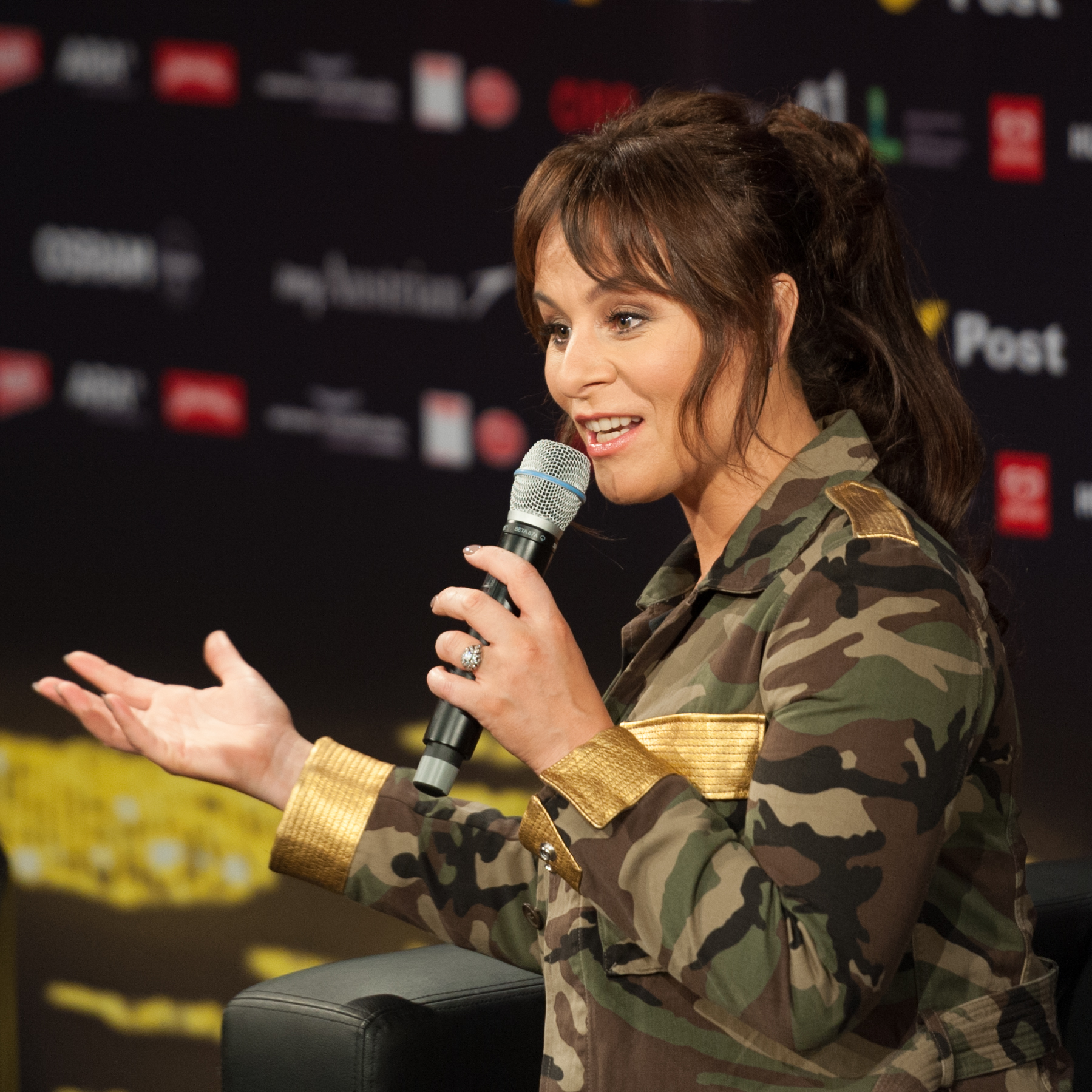 Eurovision Song Contest Vienna 2015: Trijntje Oosterhuis